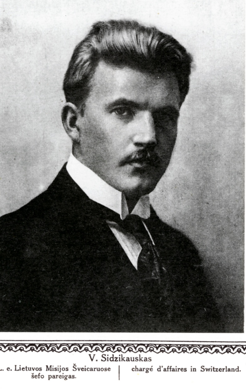 Vaclovas Sidzikauskas, Lithuanian diplomat, lawyer